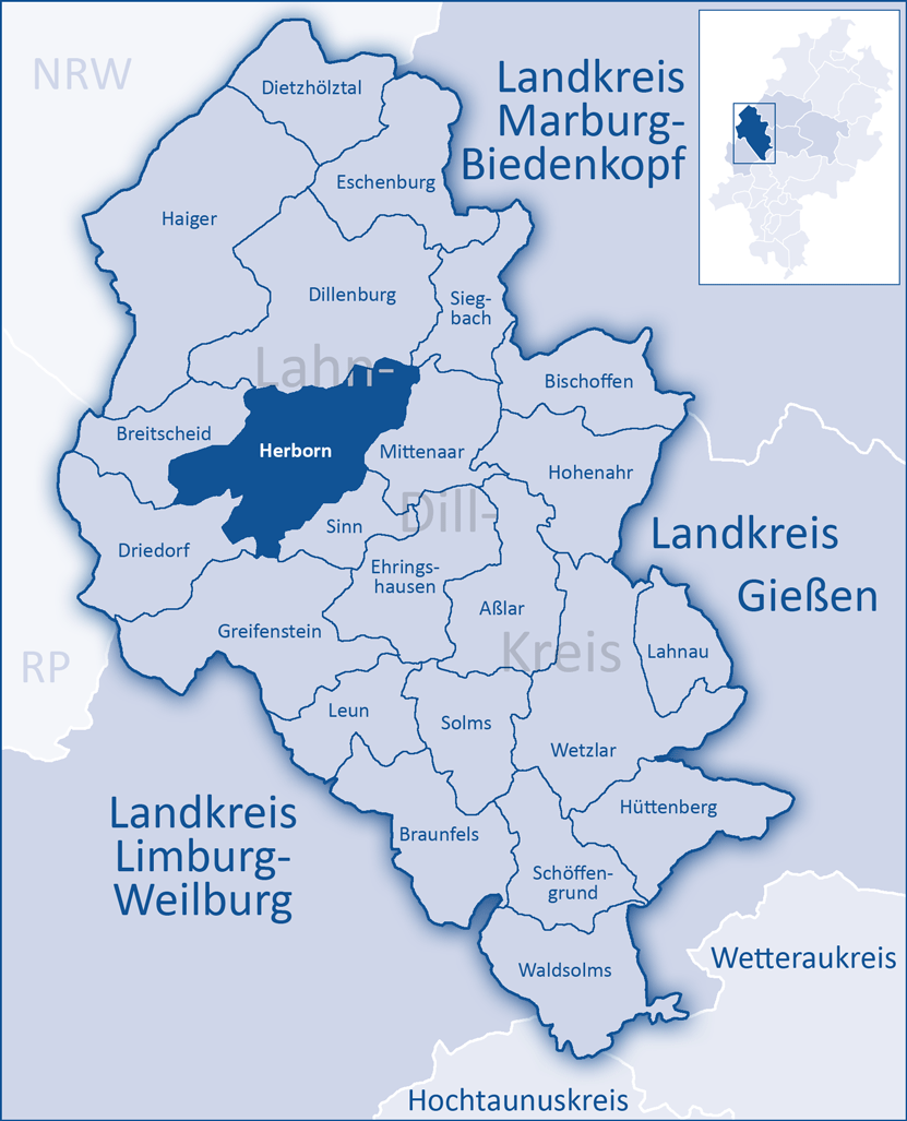 The map shows a district in the area of Lahn-Dill-Kreis